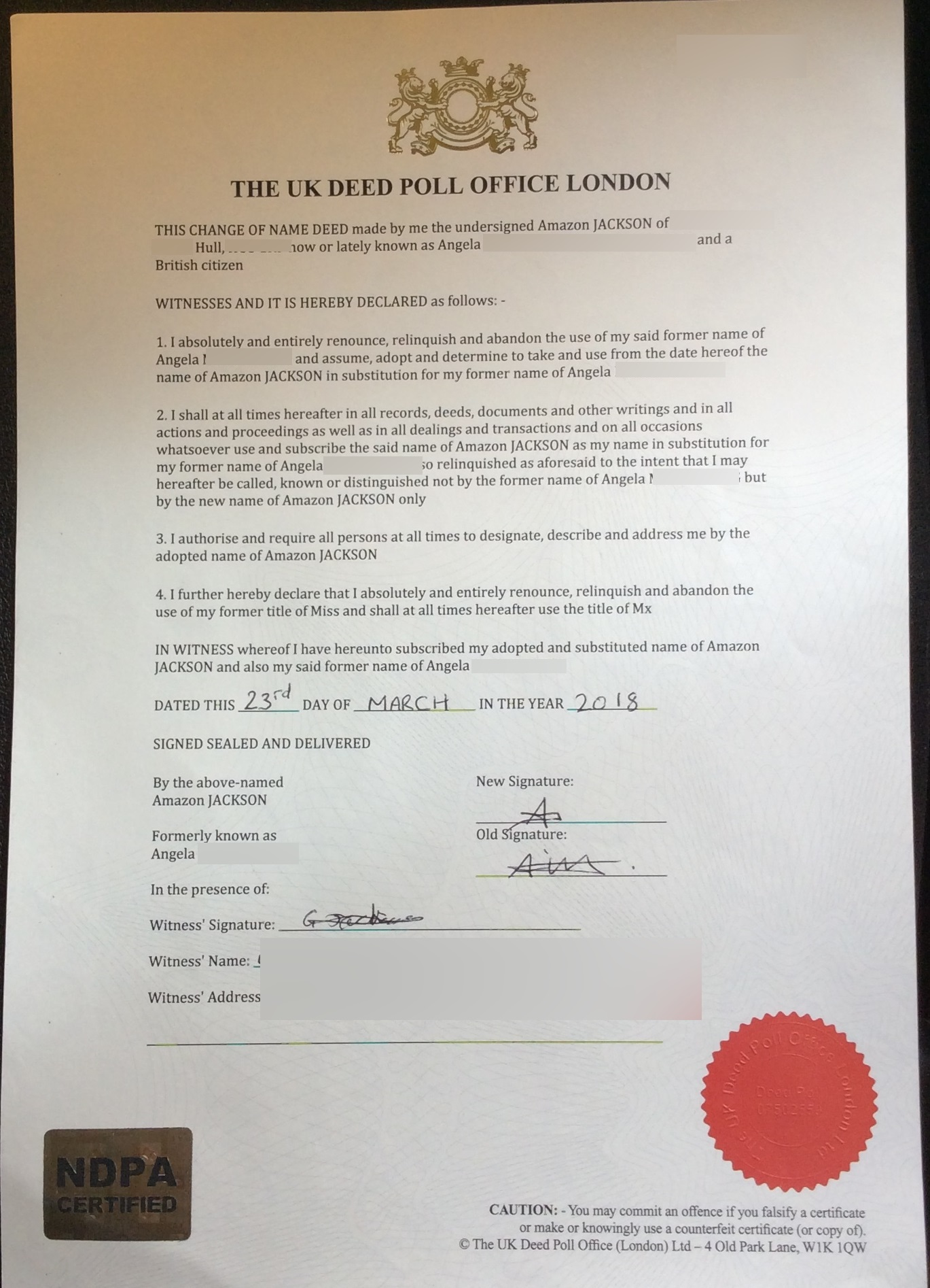 A deed poll of change of name, used in England and Wales.